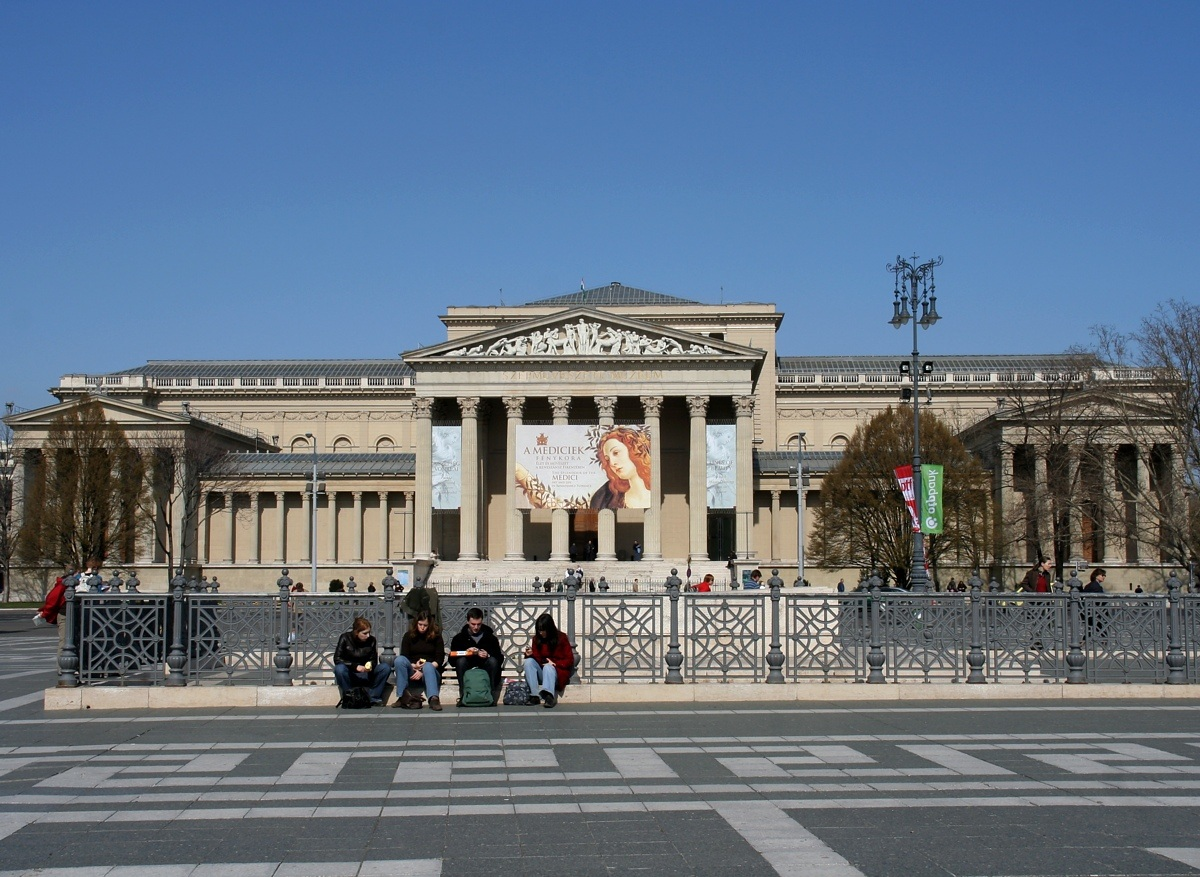 Budapest Museum of Fine Arts